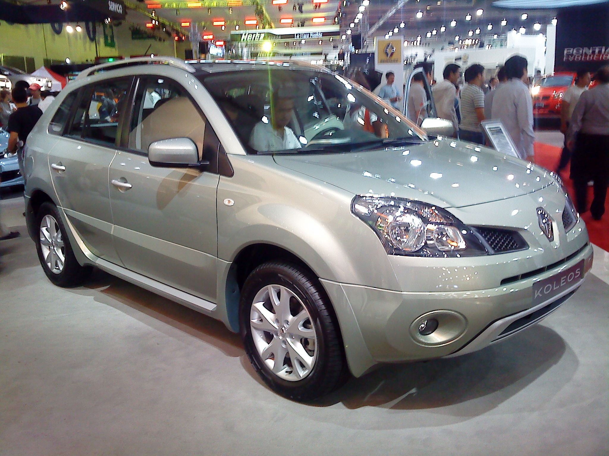 Renault's new Koleos at the 2008 SIAM.